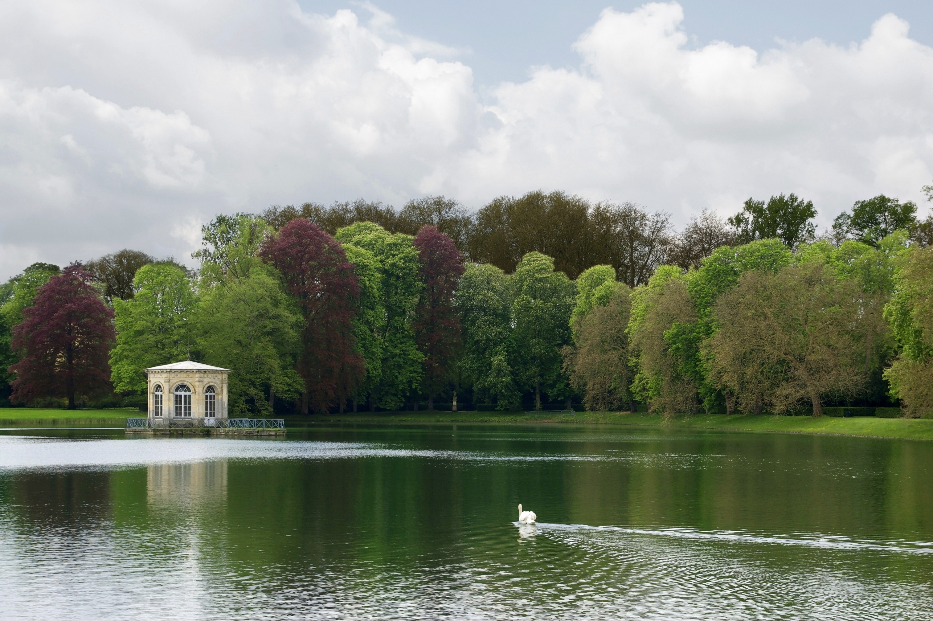 The "Carp Pond" (étang des Carpes), with the little octagonal building, park of the castle of Fontainebleau, Seine-et-Marne, France.